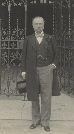 by Sir (John) Benjamin Stone, platinum print in card window mount, 1901